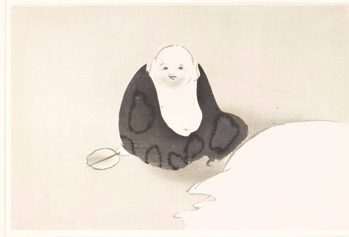 A woodblock print from Kamisaka Sekka's series Momoyogusa. This one depicts a sitting man.